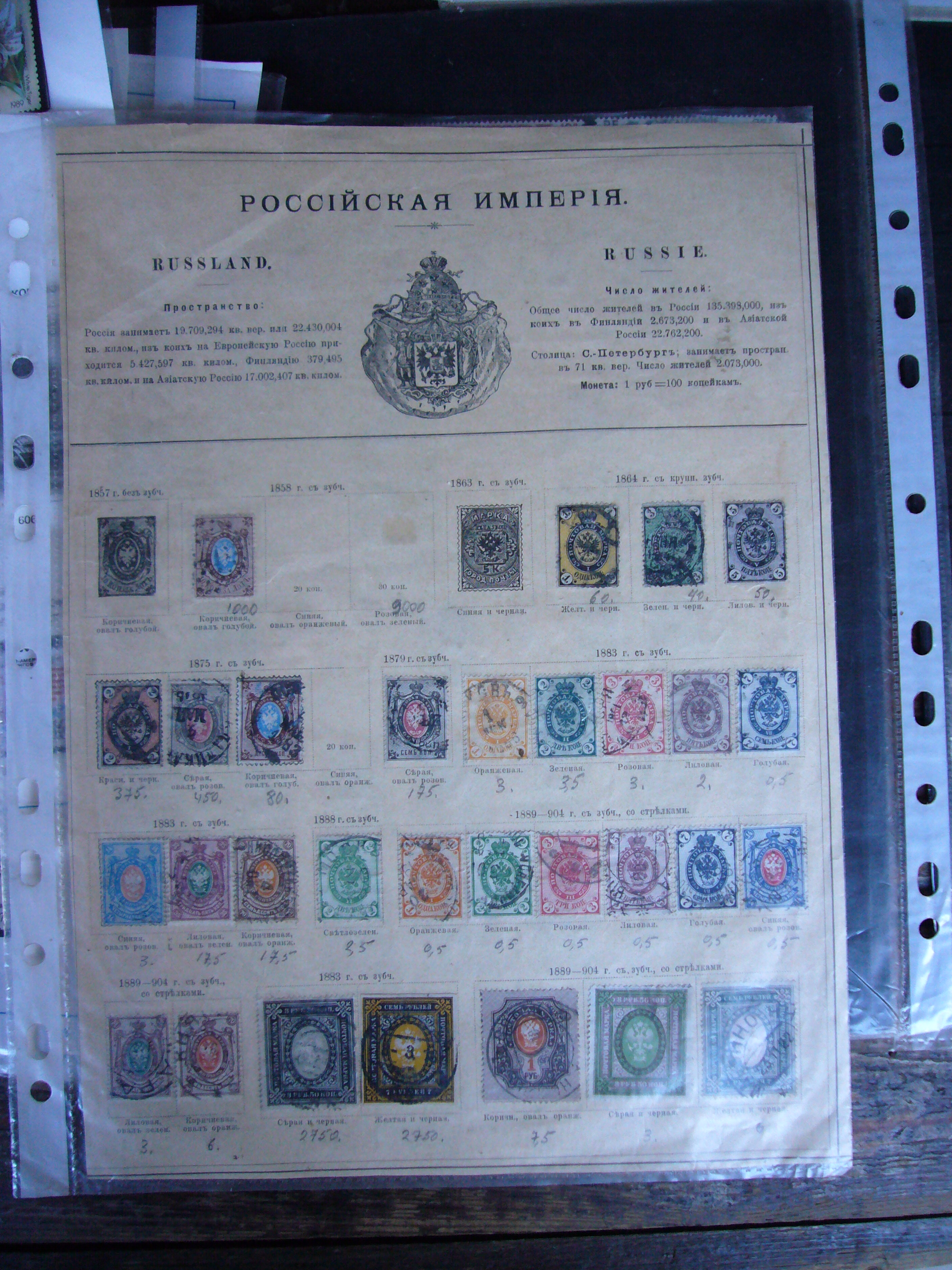 A sheet of Tsarist Russia stamps from old collection.